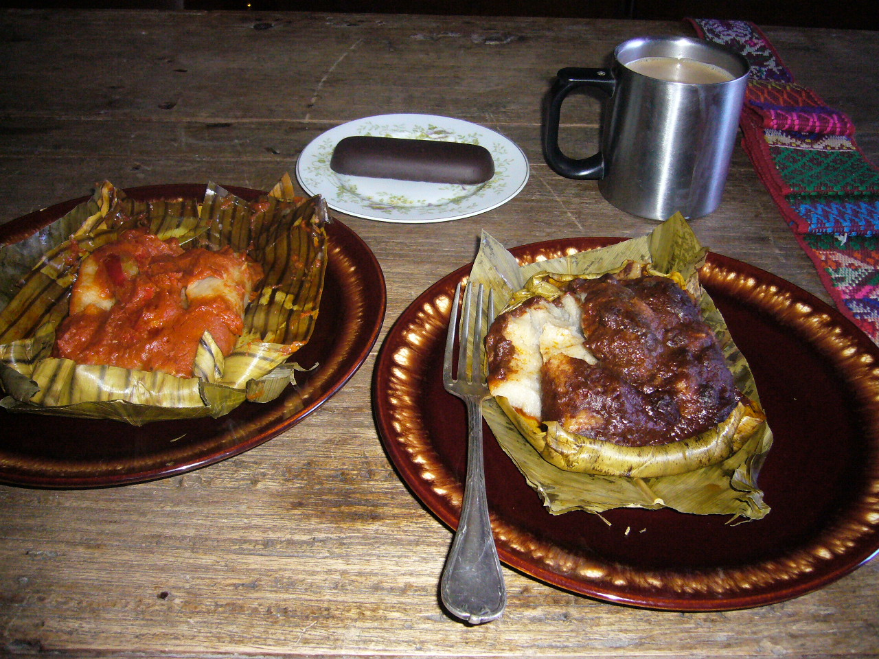 Red and black tamales, typical of the Guatemalan Christmas, with coffee and chocolate covered marzipan